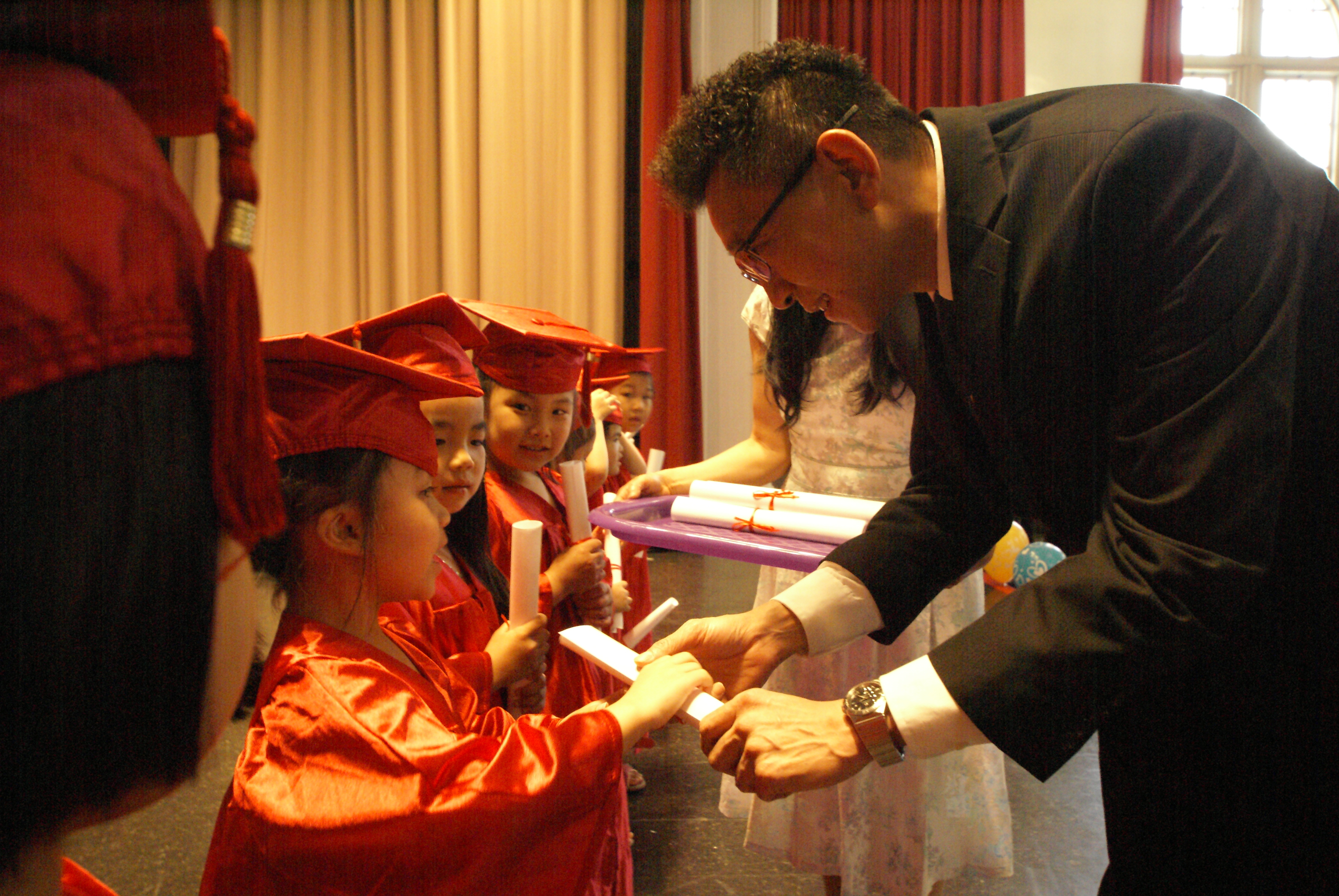 在2016至17年度華協會學前班畢業禮上，會長麥保羅親手頒發畢業證書給每一位畢業學童。